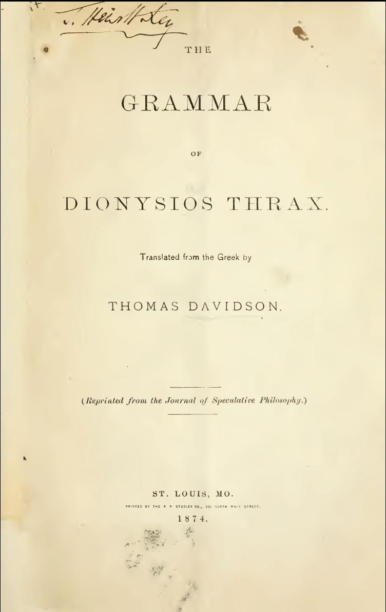 Front page of the first English translation of the Dionysius Thrax's Grammar.